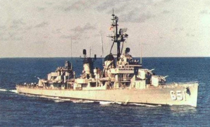 The U.S. Navy destroyer USS Cogswell (DD-651) underway at sea, circa in 1969.